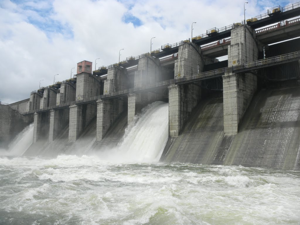 Dam on Sindhafana river